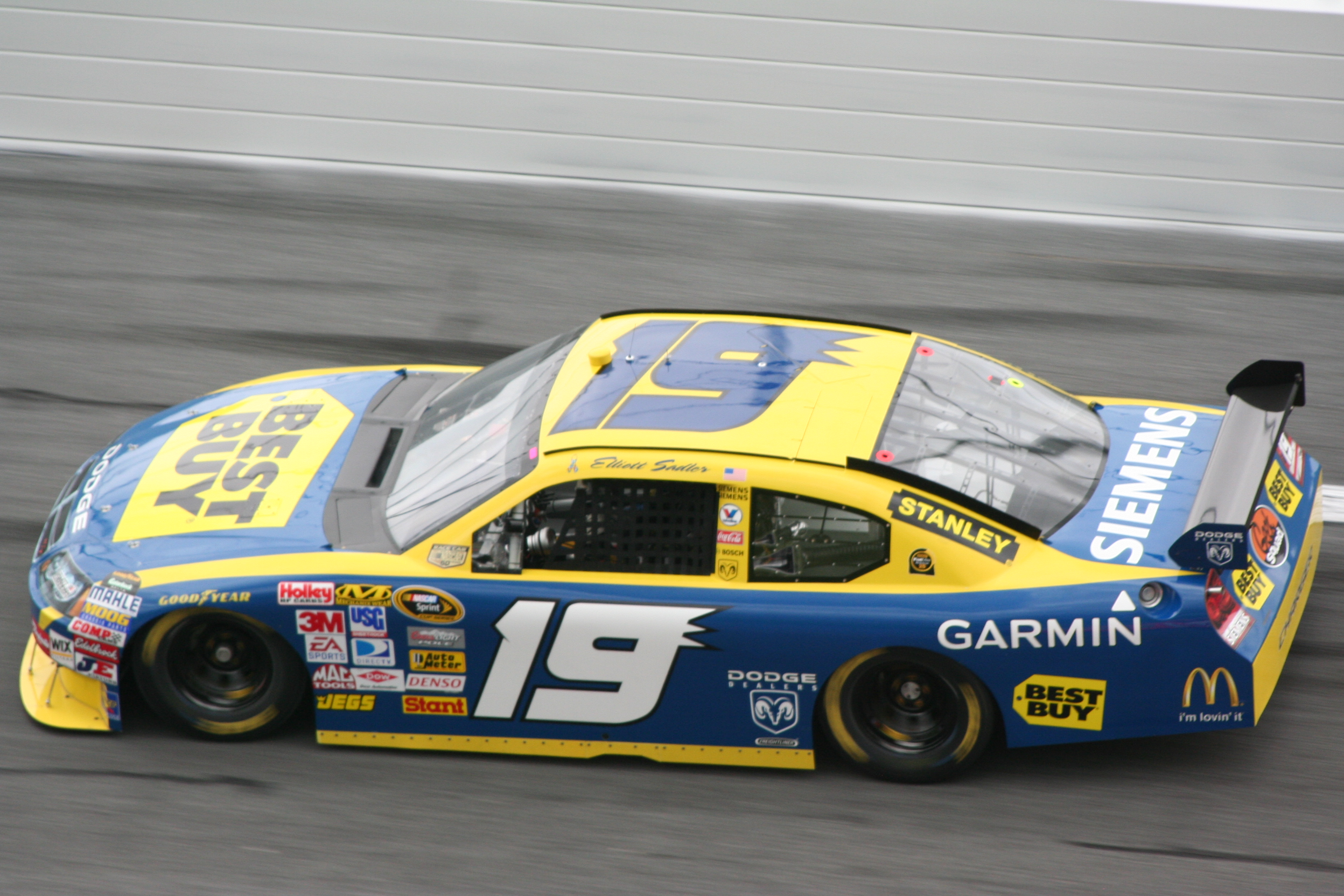 Shot by The Daredevil at Daytona during Speedweeks 2008Elliott Sadler Best Buy Dodge Charger